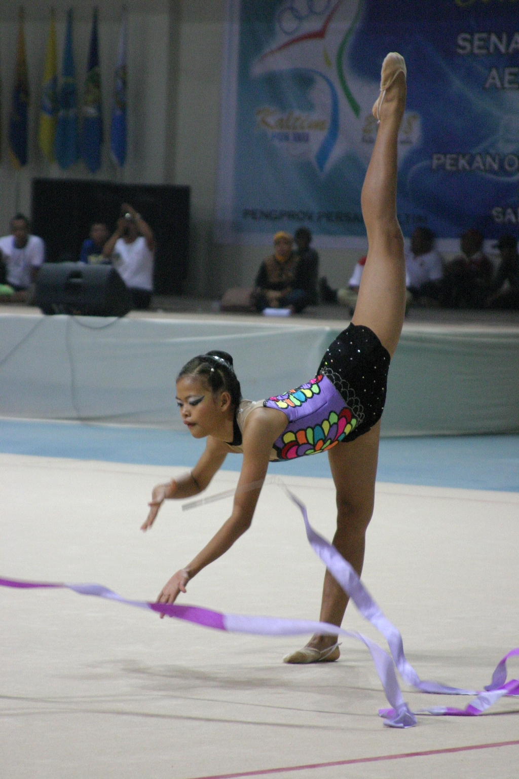 A beautiful gymnastics performance on PON XVII 2008 event